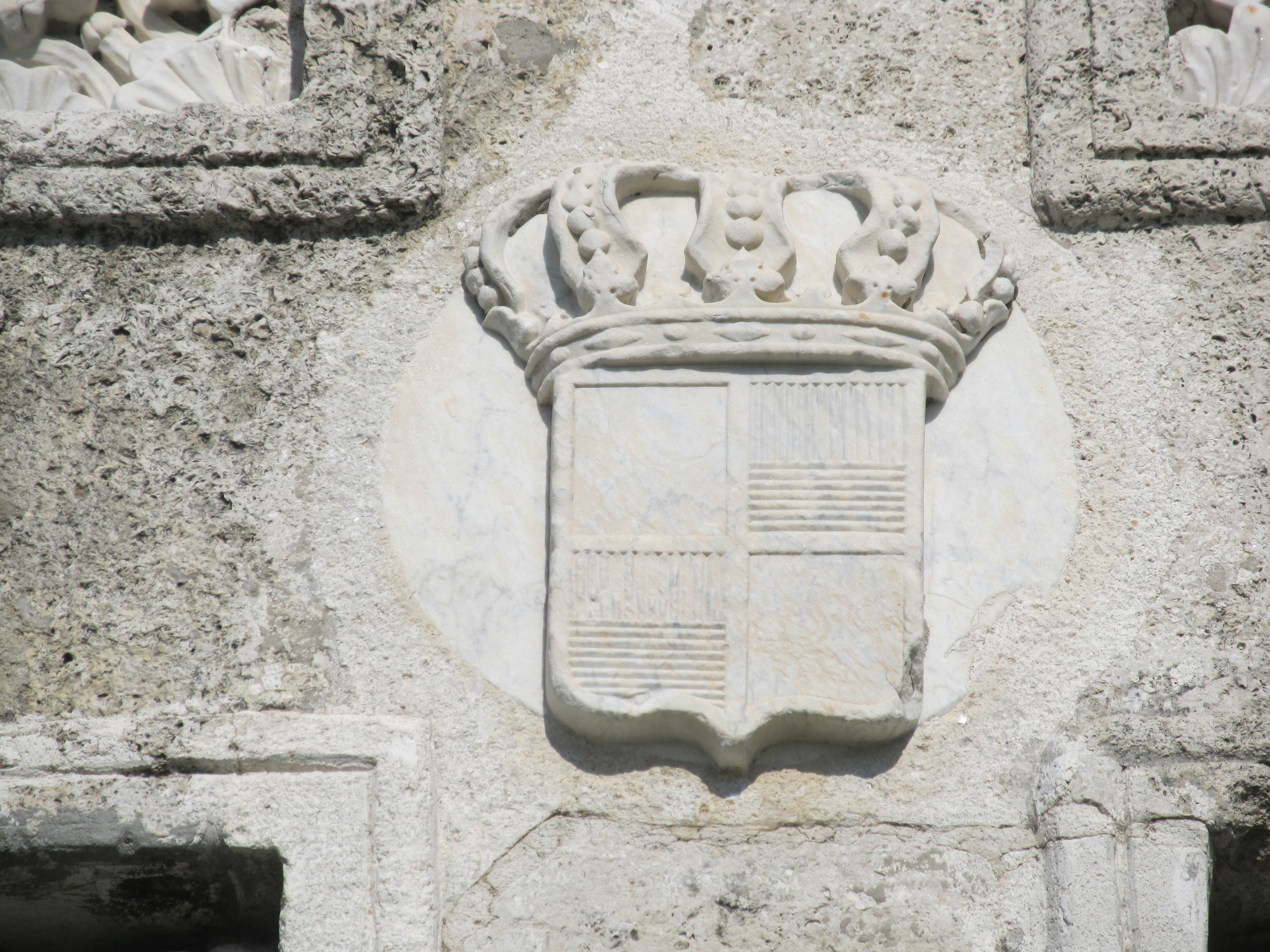 Ruler's Cross, monument erected in 1866 in the Romanian village of Melicești, municipality of Telega, work of architect Paul Focșeneanu.